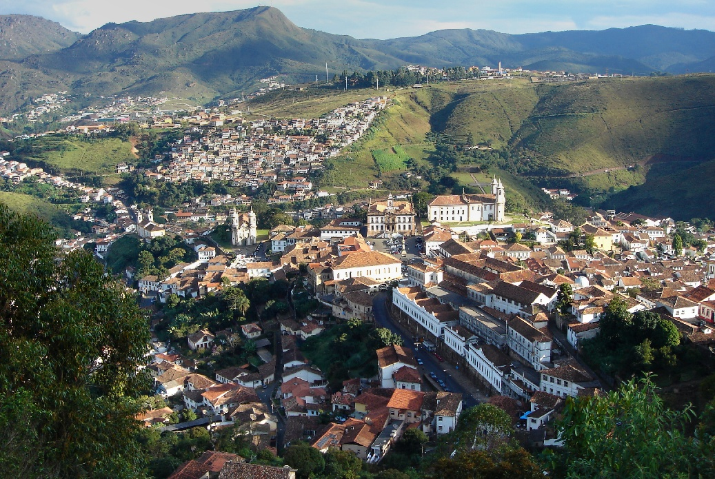 View of Ouro Preto from North